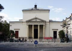 Photographie